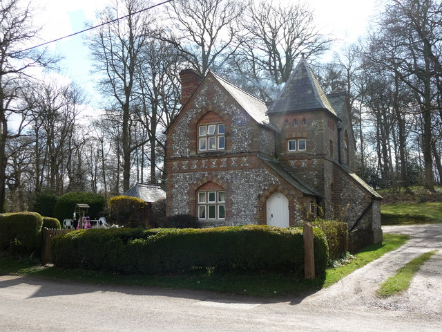 Fosbury - House A fine brick and flint house opposite the Church.